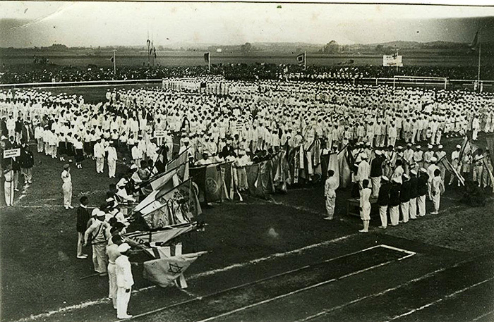 The ceremonies of the first Maccabiah in 1932